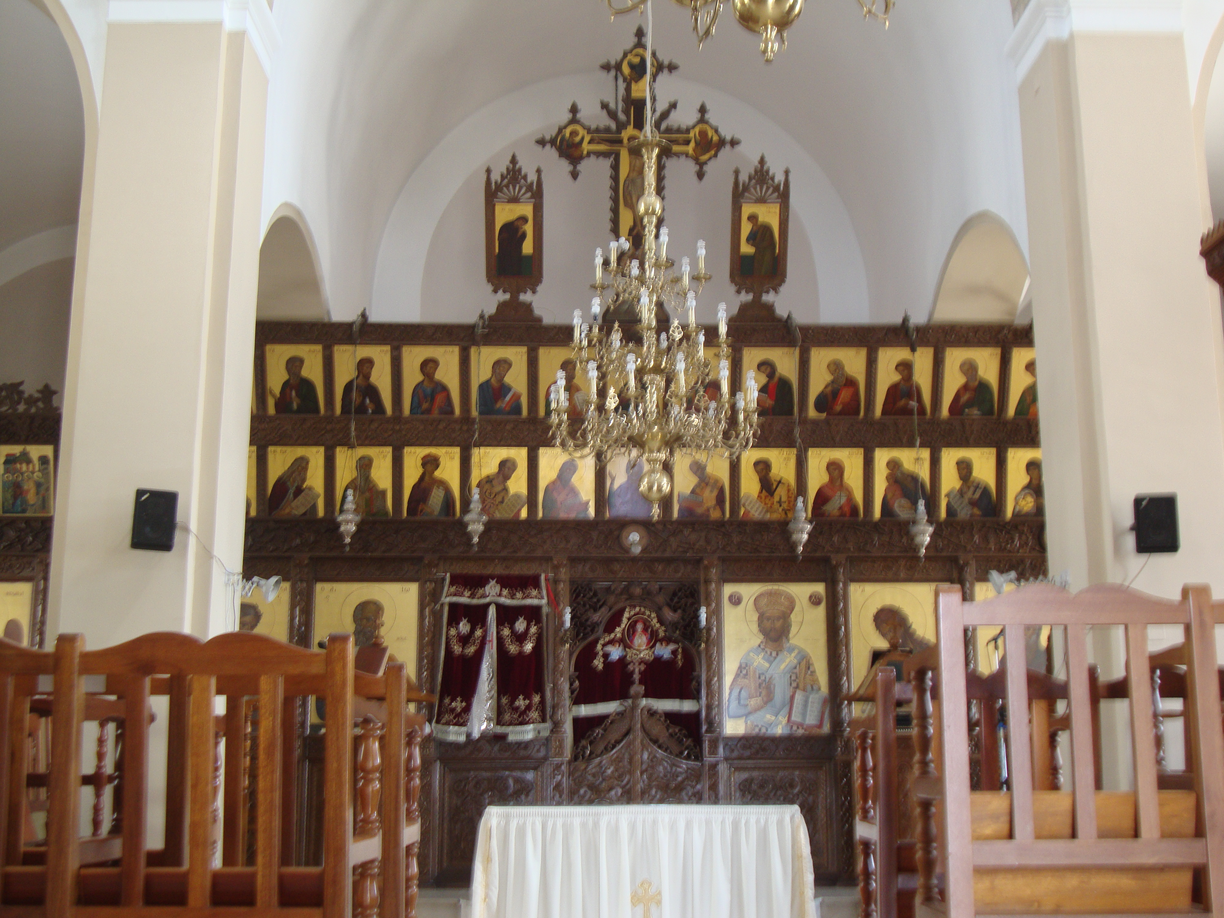 Panagia Theoskepasti, int.09/3013